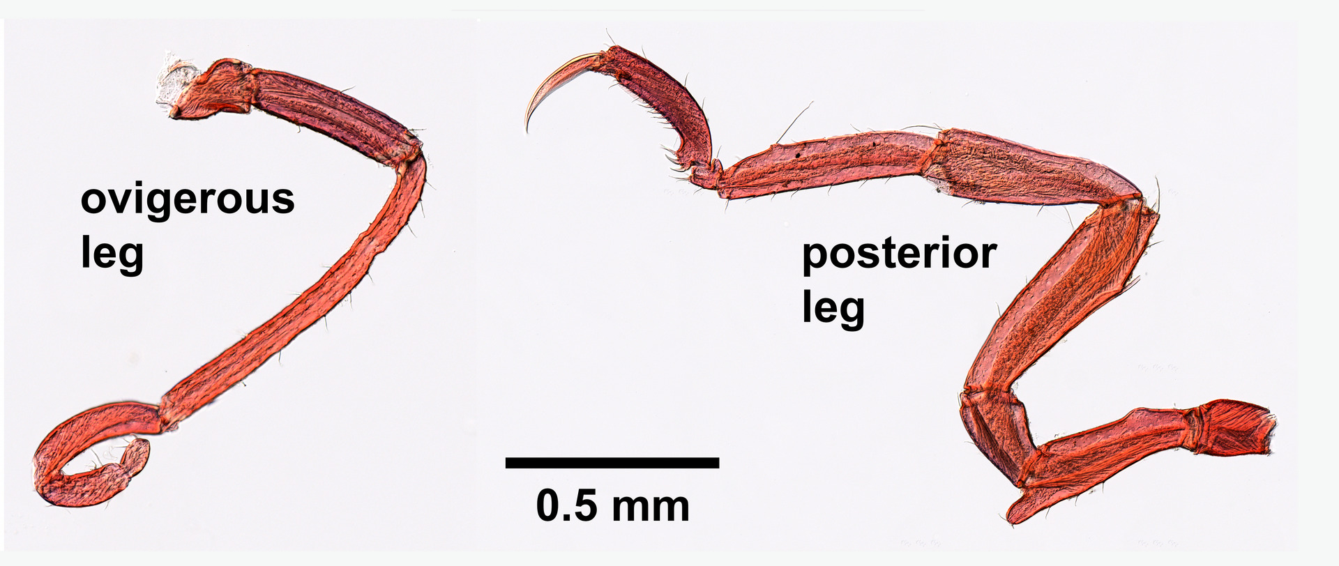 PRESERVED_SPECIMEN; ; ; microslide; Det. by: C. A. Child; GM Image; Gray Museum; IZ number 33765; lot count 1; Microslide 01, balsam, whole mount; Microslide 02, balsam, leg(s); Microslide 02, balsam, ovigerous leg; original catalog number GM 6233; 1964-01-01T00:00:00Z